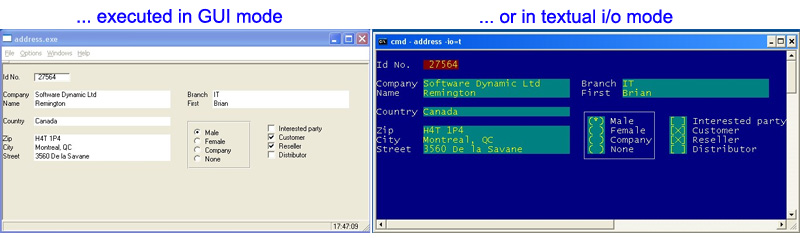 FlagShip compiler ScreenShot